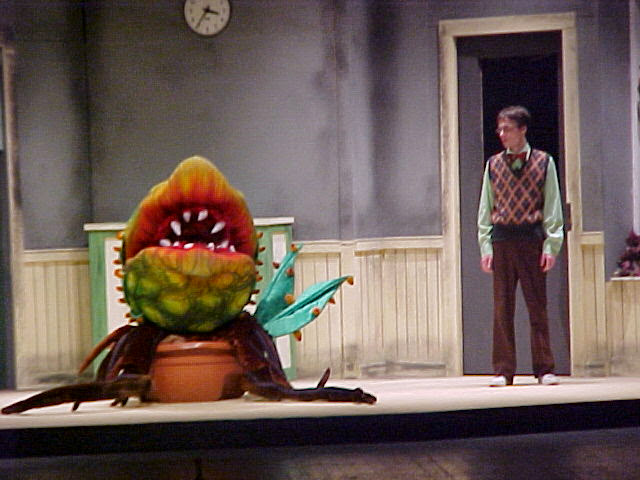 GHS Musical, fall 2001